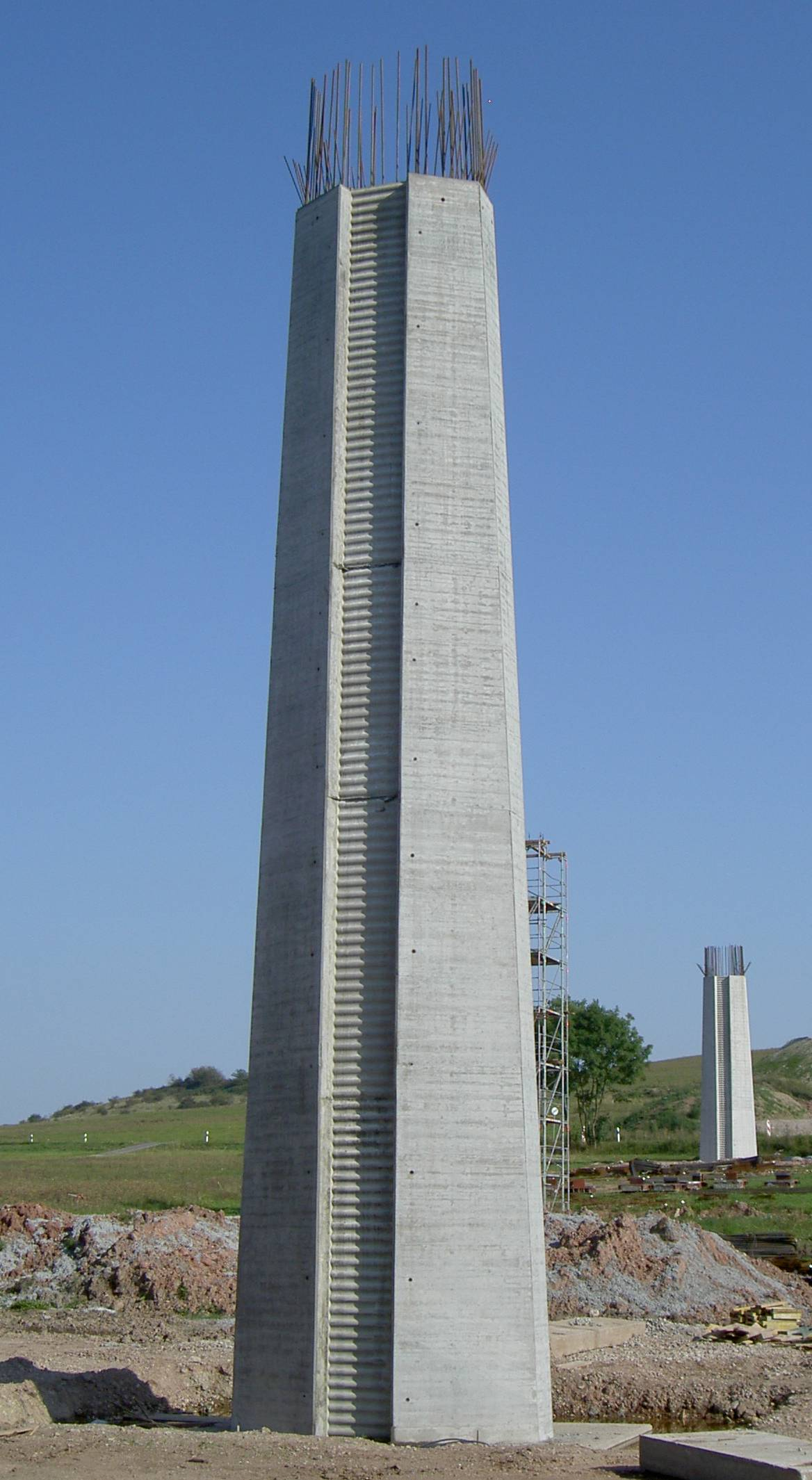 concrete bridge pillar